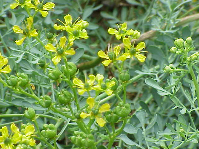 Species: Ruta graveolens Family: Rutaceae Image No. 4